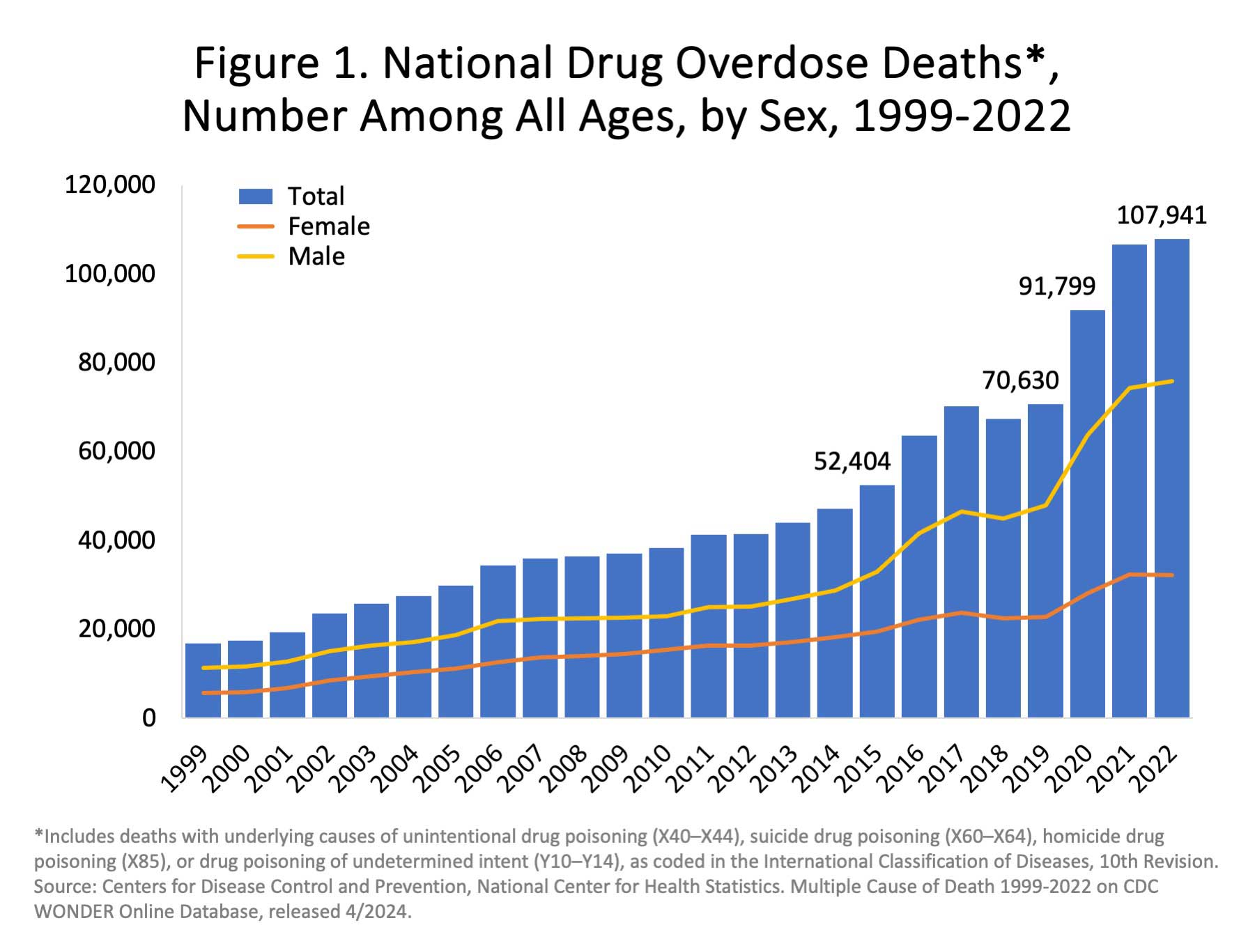 "Figure 1. National Drug Overdose Deaths—Number Among All Ages, by Gender, 1999-2017. More than 70,200 Americans died from drug overdoses in 2017, including illicit drugs and prescription opioids—a 2-fold increase in a decade. The figure above is a bar and line graph showing the total number of U.S. overdose deaths involving all drugs from 1999 to 2017. Drug overdose deaths rose from 16,849 in 1999 to 70,237 in 2017. The bars are overlaid by lines showing the number of deaths by gender from 1999 to 2017 (Source: CDC WONDER)."